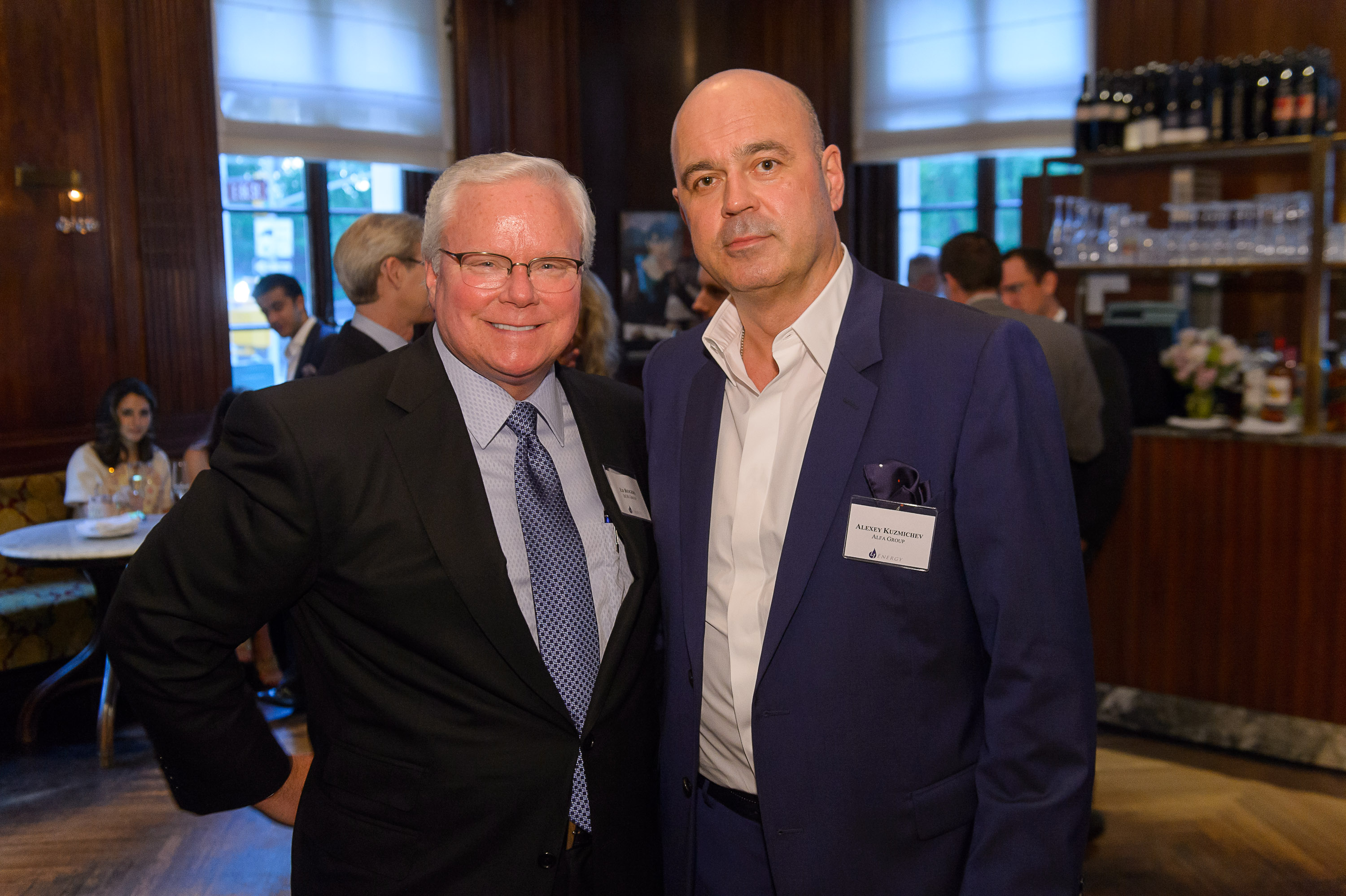 Opening of art exhibition in New York- May 2015